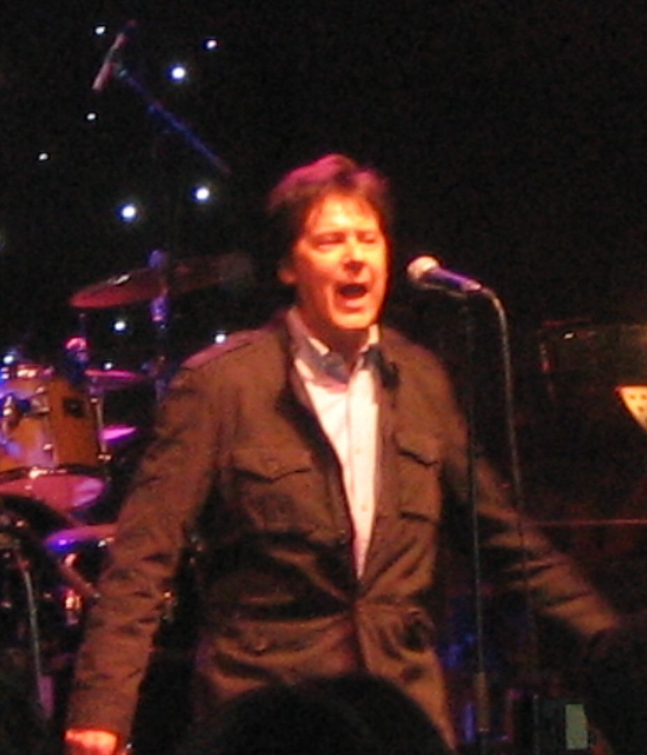 Shakin' Stevens @ Marc Bolan - A Celebration (2007)